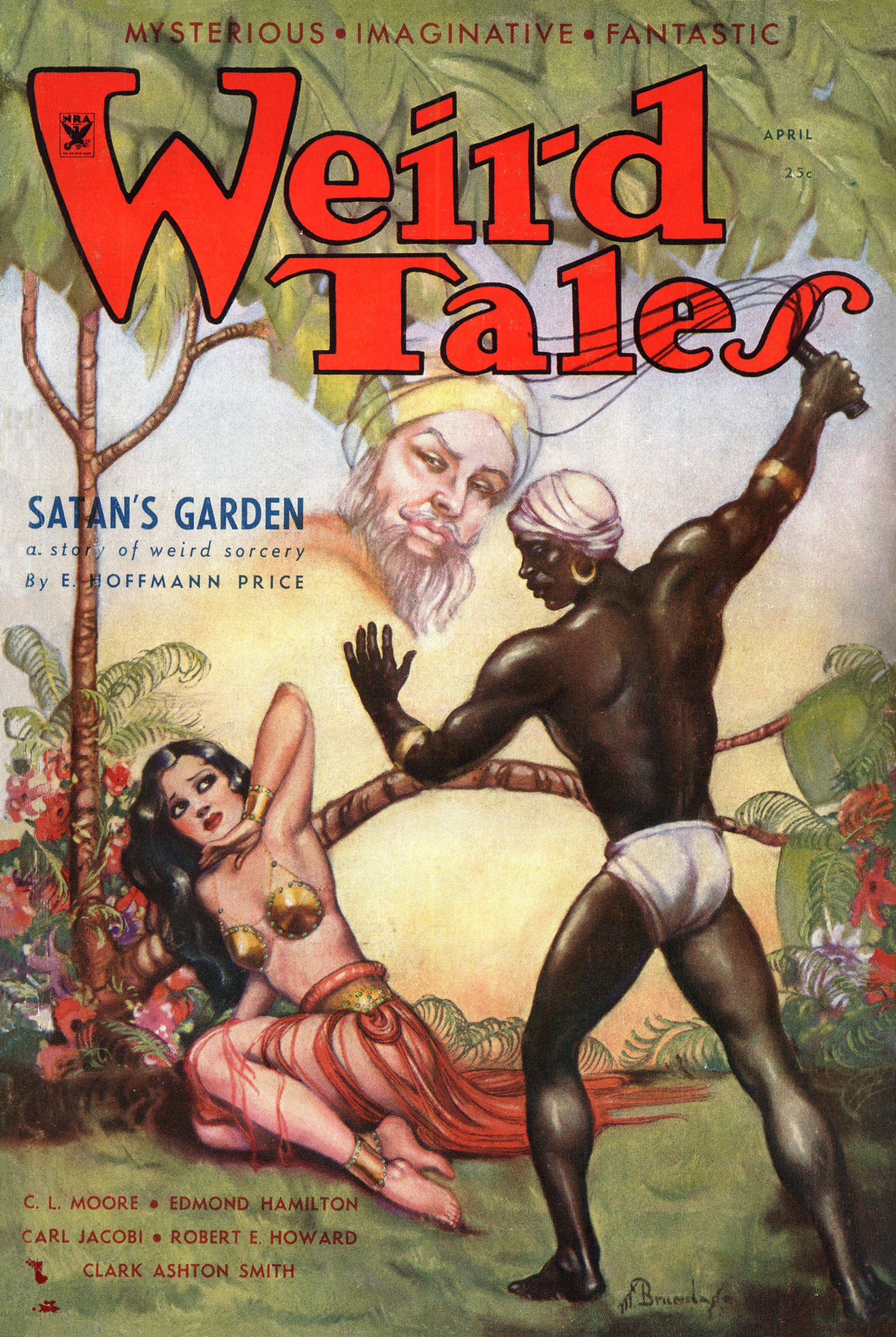 Cover of the pulp magazine Weird Tales (April 1934, vol. 23, no. 4) featuring Satan's Garden by E. Hoffmann Price. Published by Rural Publishing.